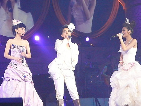 Picture of S.H.E performing in Hong Kong during their Perfect 3 Tour in 2006/2007 Bân-lâm-gú: 2006年至2007年的移動城堡世界巡迴，S.H.E佇香港的表演。 2006-nî tsì 2007-nî ê Î-tōng Siânn-pó Sè-kài Sûn-huê, S.H.E tī Hiong-káng ê piáu-ián.